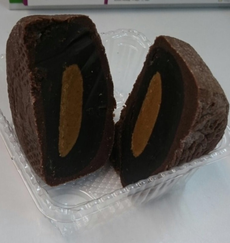 a mooncake with inner filling of cappuccino yolk surronuded by chocolate.